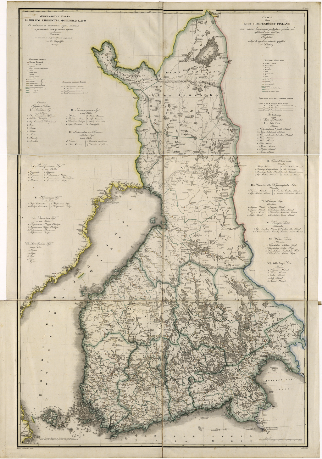 This 1825 map of the Grand Duchy of Finland is from a larger work, Geographical atlas of the Russian Empire, the Kingdom of Poland, and the Grand Duchy of Finland (Geograficheskii atlas Rossiiskoi imperii, tsarstva Pol'skogo i velikogo kniazhestva Finliandskogo), containing 61 maps of the Russian Empire. Compiled and engraved by Colonel V. P. Piadyshev, it reflects the detailed mapping carried out by Russian military cartographers in the first quarter of the 19th century. The map shows population centers (five gradations by size), fortresses, redoubts, postal courtyards and stations, roads (four types), and provincial and district borders. Distances are shown in versts, a Russian measure, now no longer used, equal to 1.0668 kilometers. Legends and place names are in Russian and Swedish. The territory depicted on the map roughly corresponds to that of present-day Finland. Finland was part of Sweden until 1809, when it became a Grand Duchy within the Russian Empire. In 1917 it declared its independence from Russia.